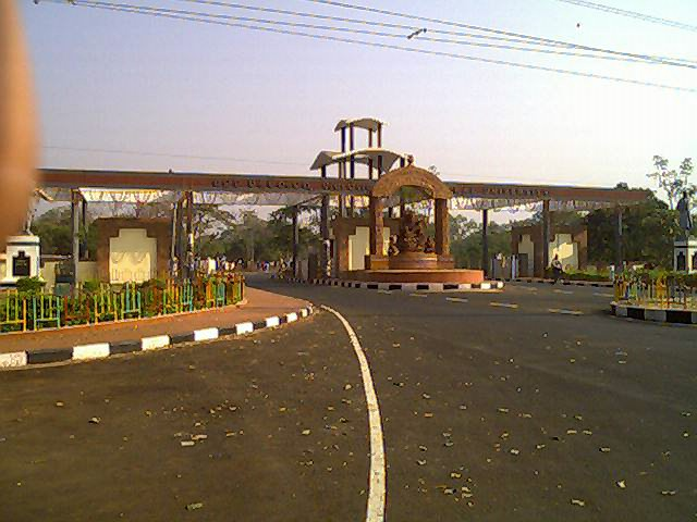 Uu053.jpg file of 800*600 resolutions